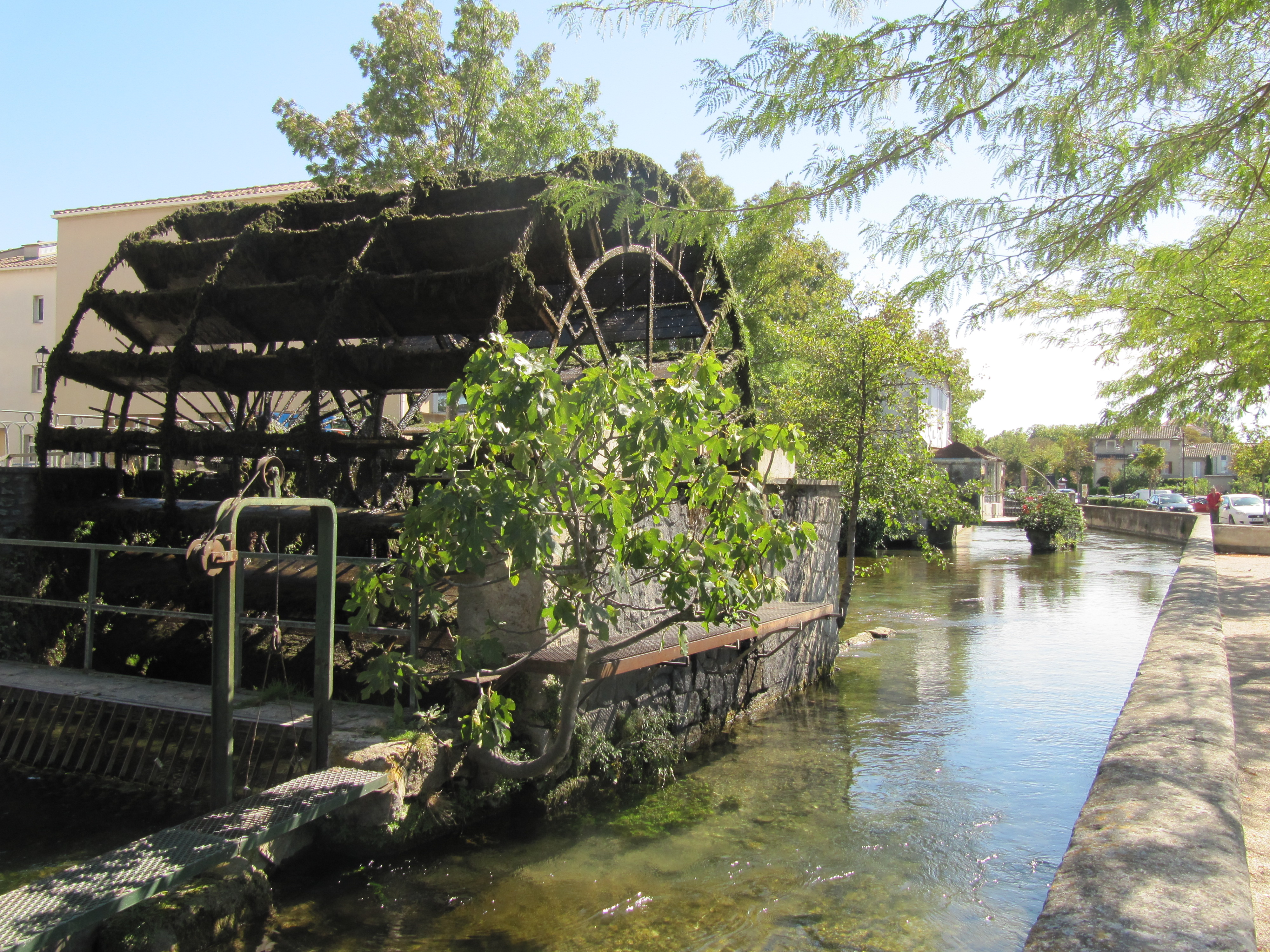 L'Isle-sur-la-Sorgue water wheel